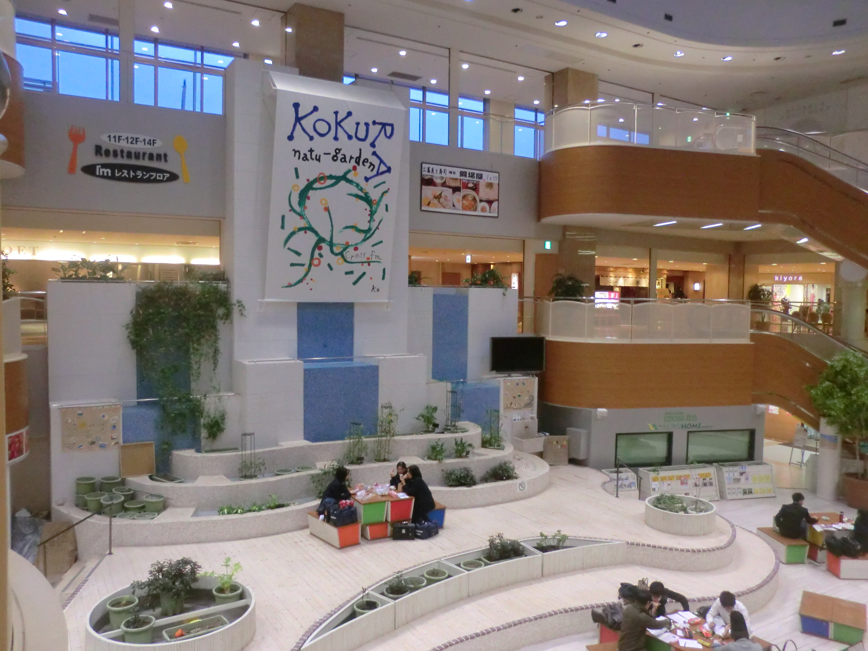 KOKURA natu-garden of COLET at Kitakyushu, Fukuoka, Japan.